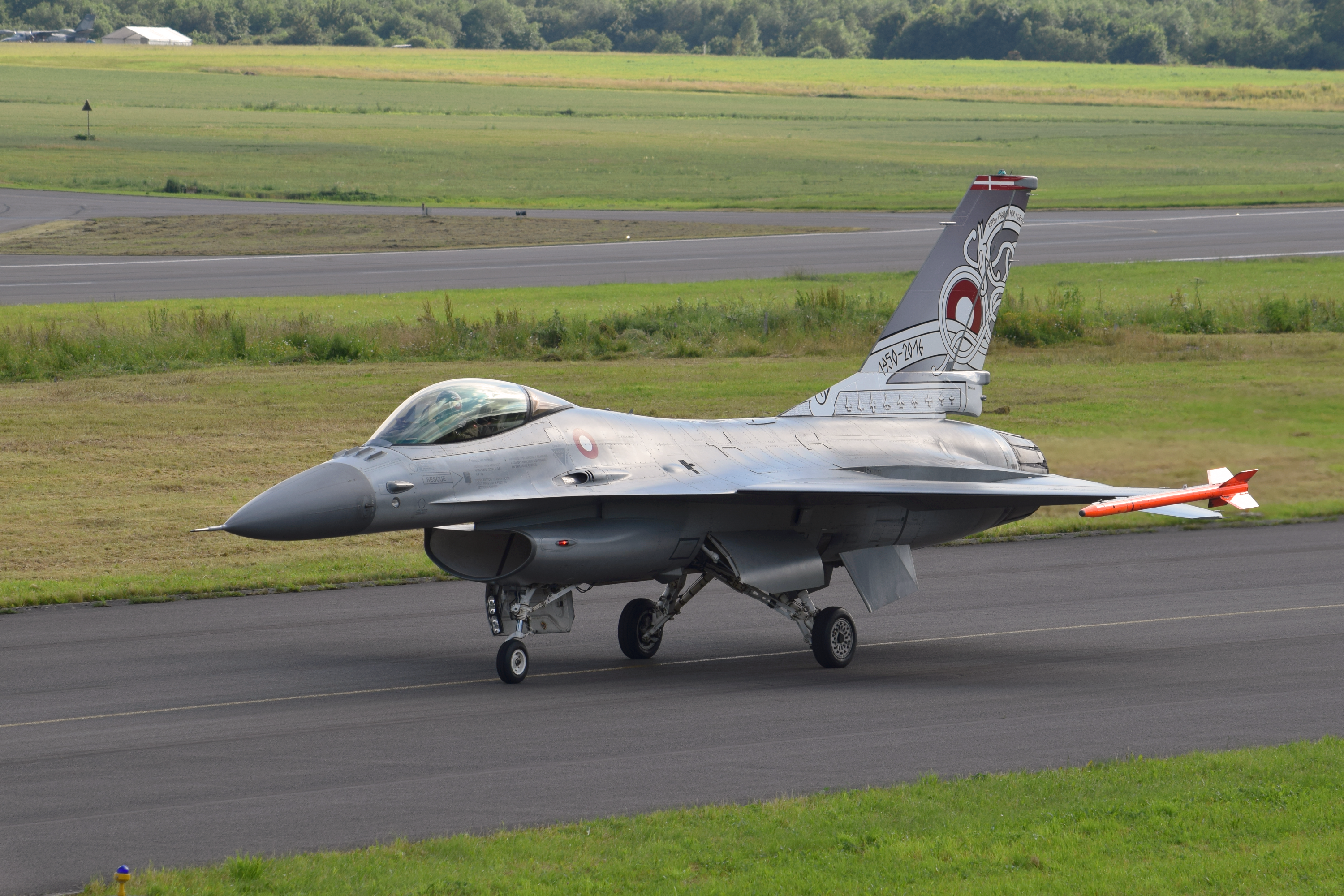 Danish F-16 in special camouflage for the 66th anniversary of the Danish Air Force at the Belgian Air Force Days 2016 in Florennes Air Base